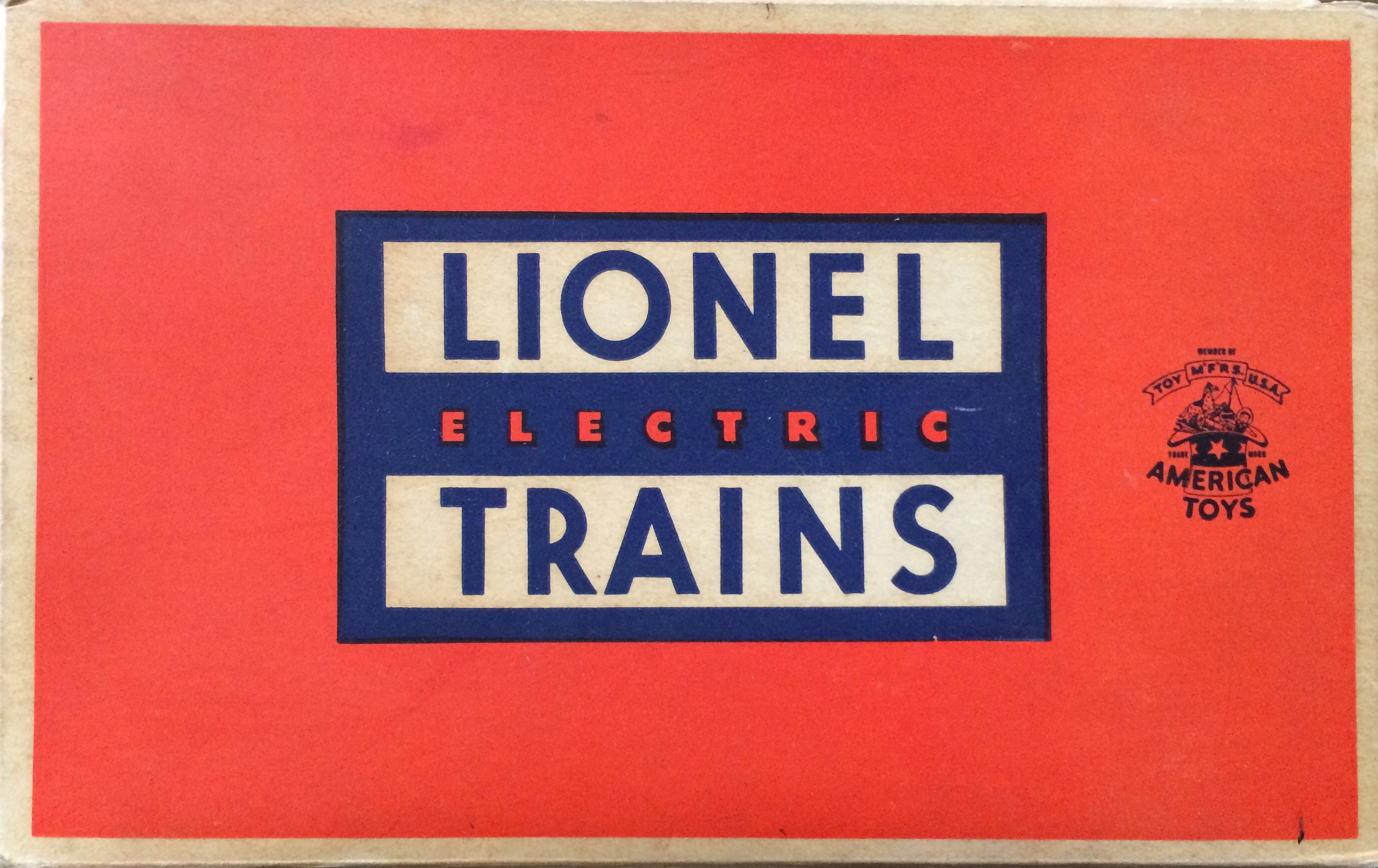 Lionel Corporation logo on box from the 1950's